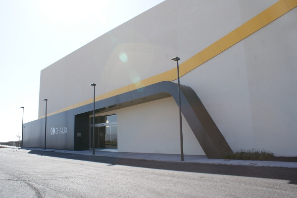 D-ALiX building (front).